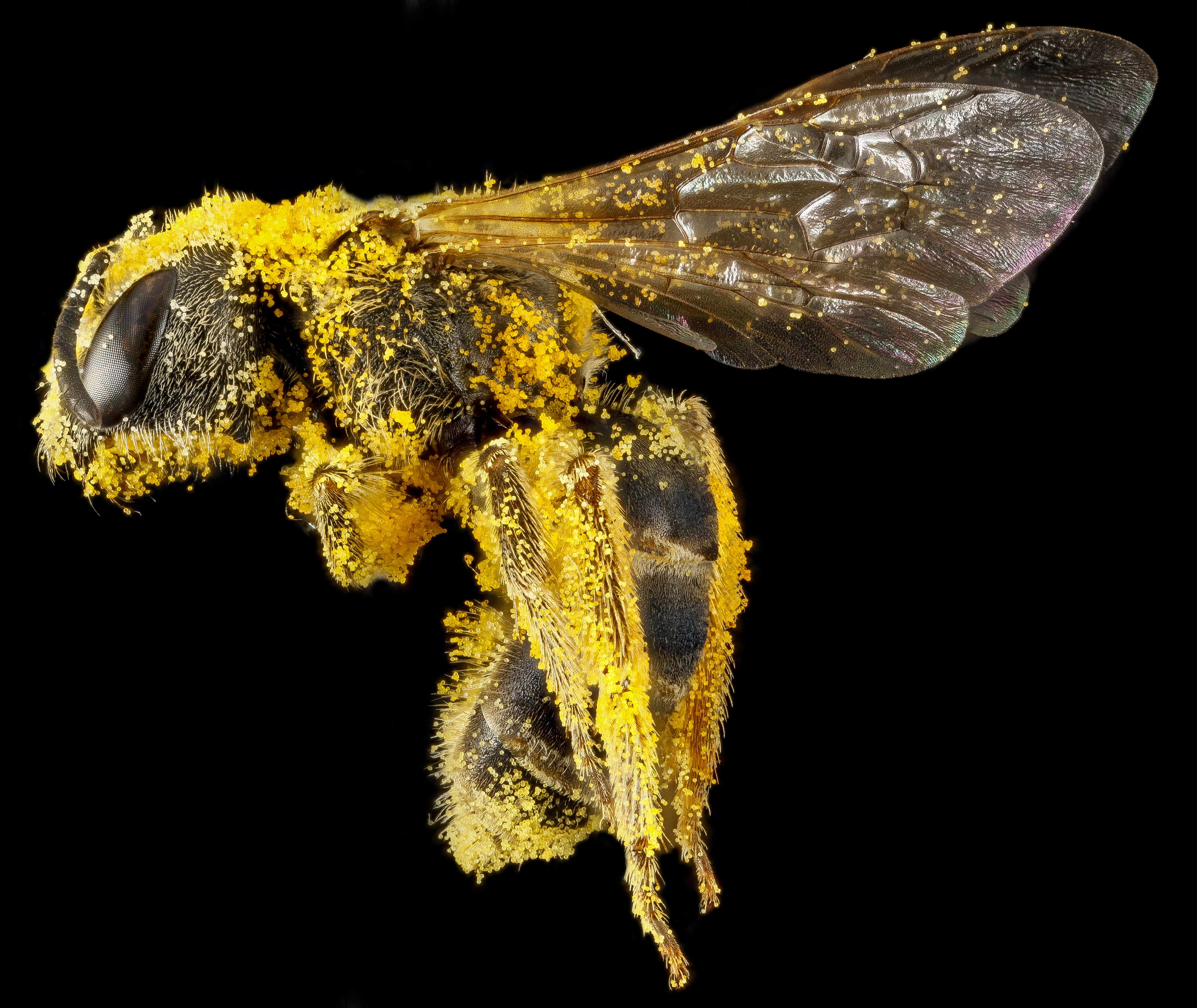 Halictus ligatus, female. Morris Arboretum, Philadelphia Pennsylvania, covered in pollen from an unknown plant